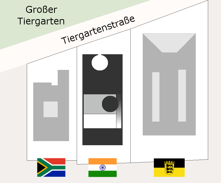 Plan of the surroundings of the Indian Embassy in Berlin, Tiergartenstraße 16–17. To the left is the South African Embassy and to the right the Embassy of the German State of Baden-Wurtemberg.